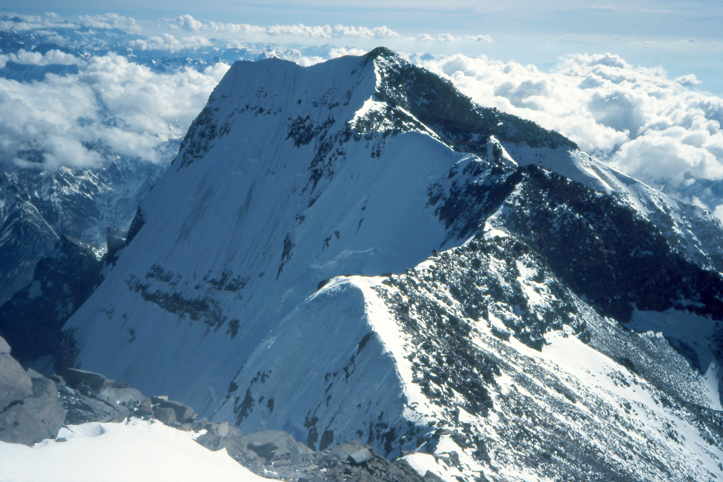 South summit of Aconcagua with south face